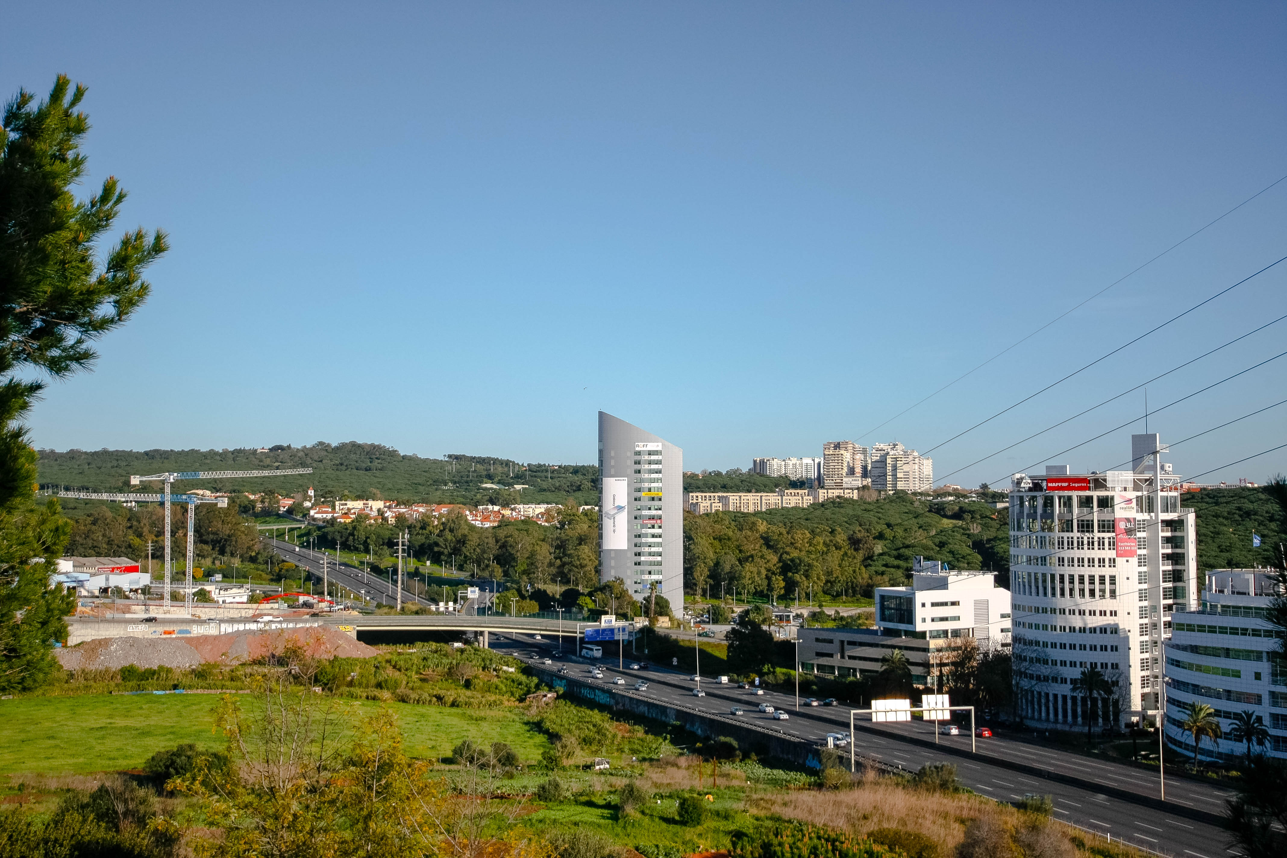 Arquiparque, Miraflores.